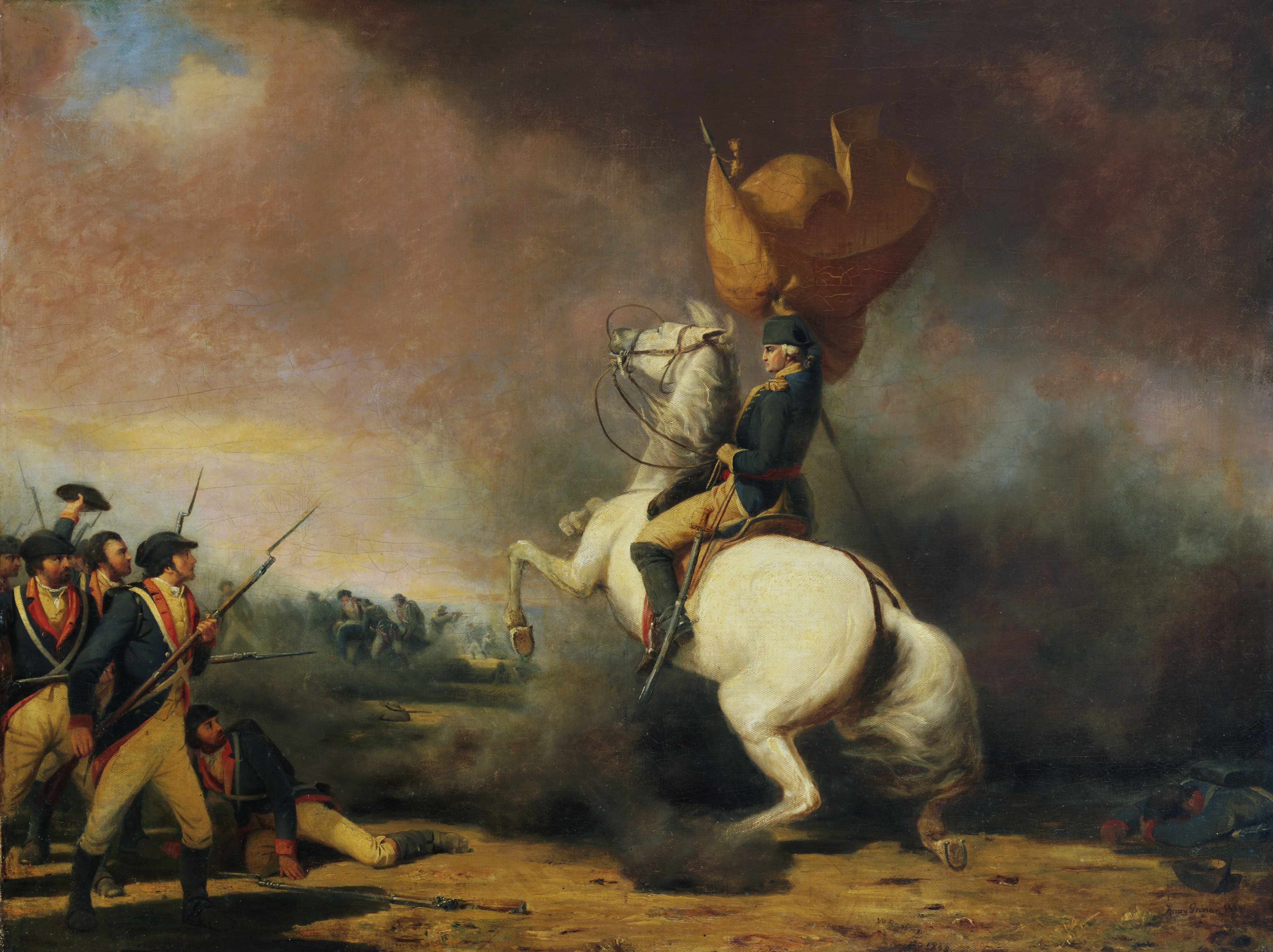 General George Washington rallying his troops at the Battle of Princeton.